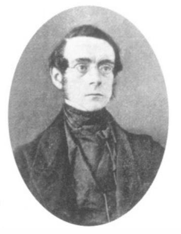 Portrait of Golding Bird